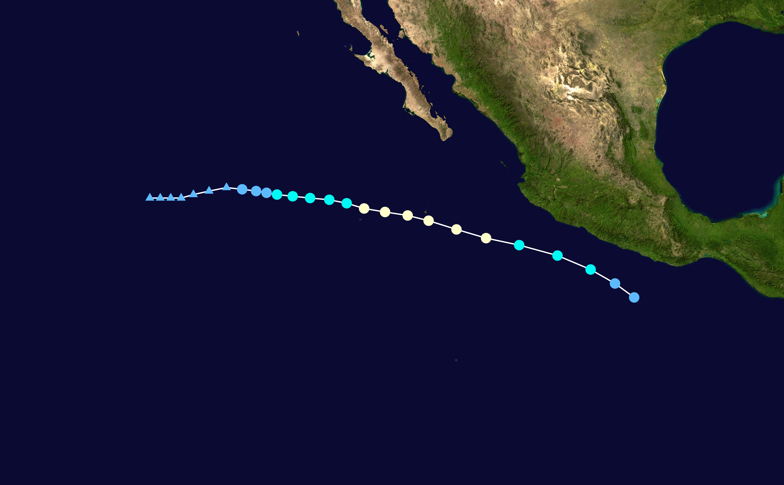 Track map of Hurricane Greg of the 2011 Pacific hurricane season. The points show the location of the storm at 6-hour intervals. The colour represents the storm's maximum sustained wind speeds as classified in the Saffir–Simpson scale (see below), and the shape of the data points represent the nature of the storm, according to the legend below. Saffir–Simpson scale Tropical depression≤38 mph≤62 km/h Category 3111–129 mph178–208 km/h Tropical storm39–73 mph63–118 km/h Category 4130–156 mph209–251 km/h Category 174–95 mph119–153 km/h Category 5≥157 mph≥252 km/h Category 296–110 mph154–177 km/h Unknown Storm type Tropical cyclone Subtropical cyclone Extratropical cyclone / Remnant low / Tropical disturbance / Monsoon depression